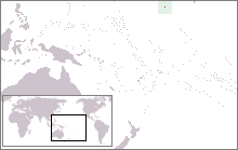 Location of Johnston Atoll in the Pacific Ocean